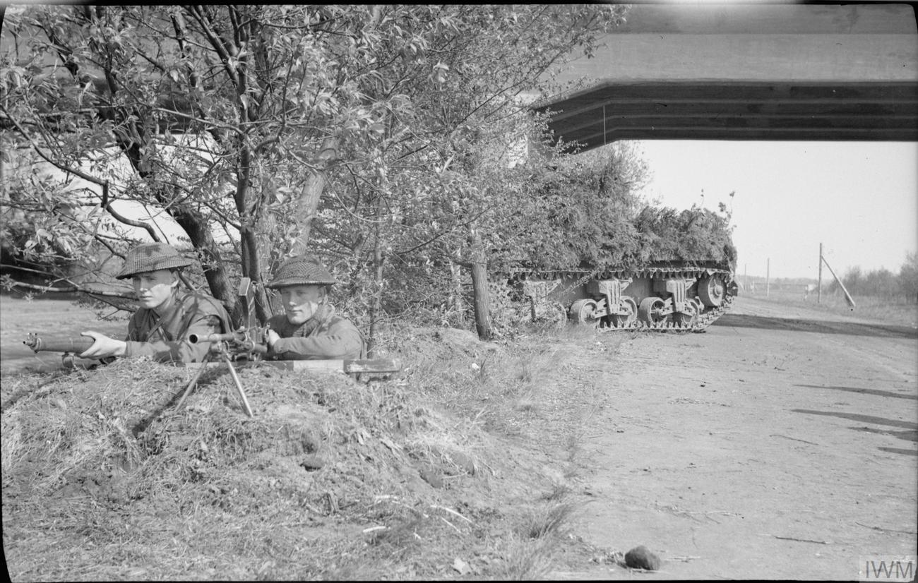 The British Army in North-west Europe 1944-45 A camouflaged Sherman Firefly of the Irish Guards and infantry guard a section of the Bremen-Hamburg autobahn, 20 April 1945.